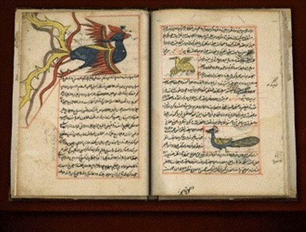 The Simurg, or Phoenix, and peacock in Zakariya al-Qazwini book Wonders of Creation